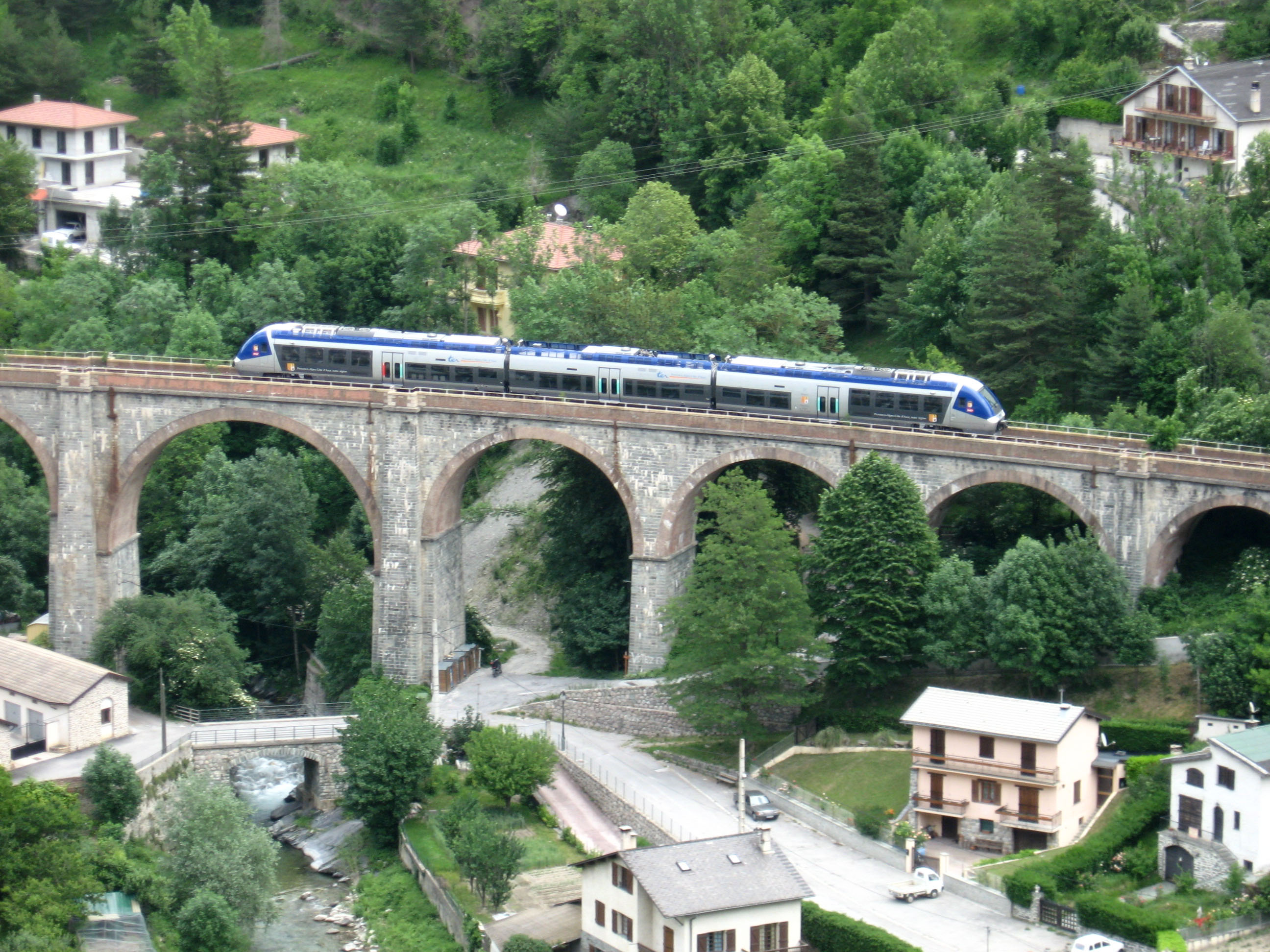 TER train on railway viaduct